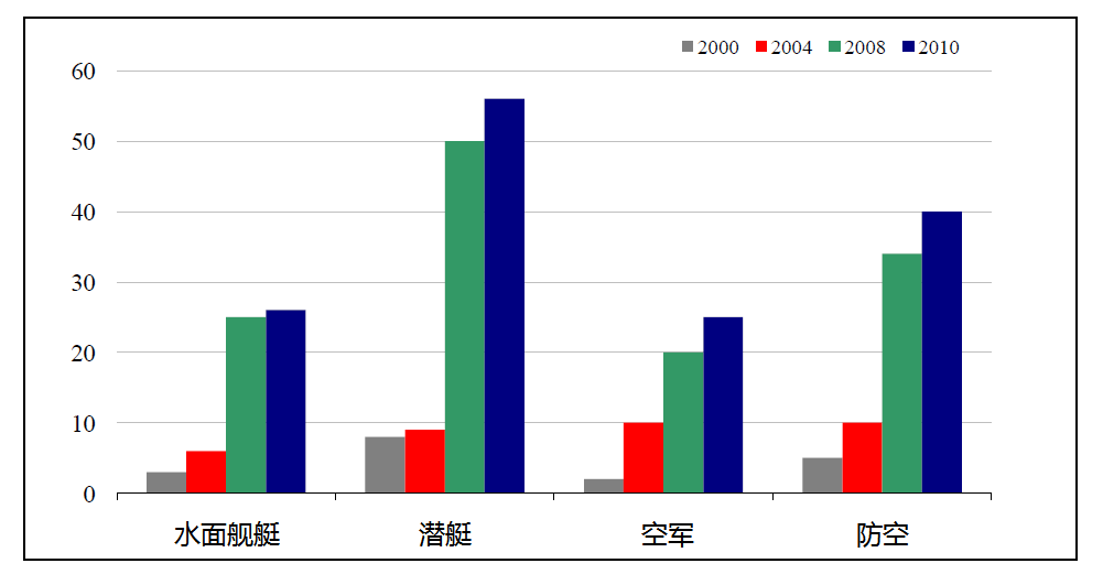 PLA Modernization Areas, 2000 – 2010, Modern Percent